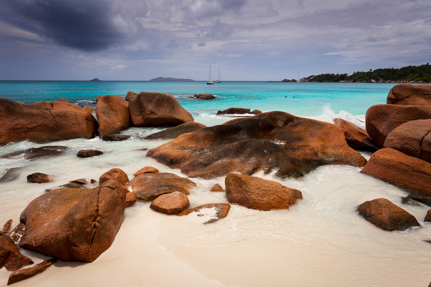 Anse Lazio is situated in the northwest of Praslin Island, considered by Lonely Planet to be the best beach on Praslin, and one of the best in the archipelago